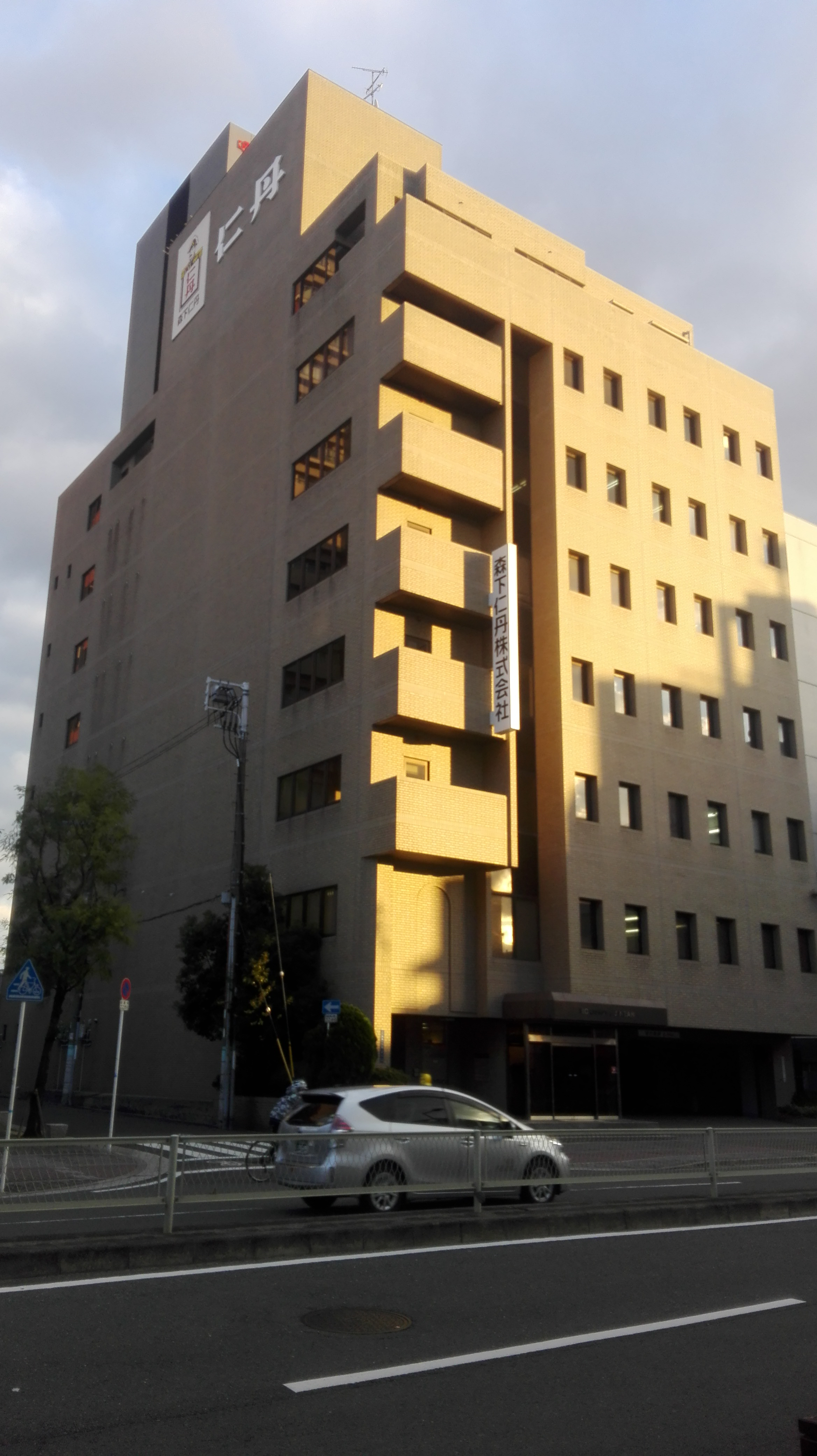 Jintan